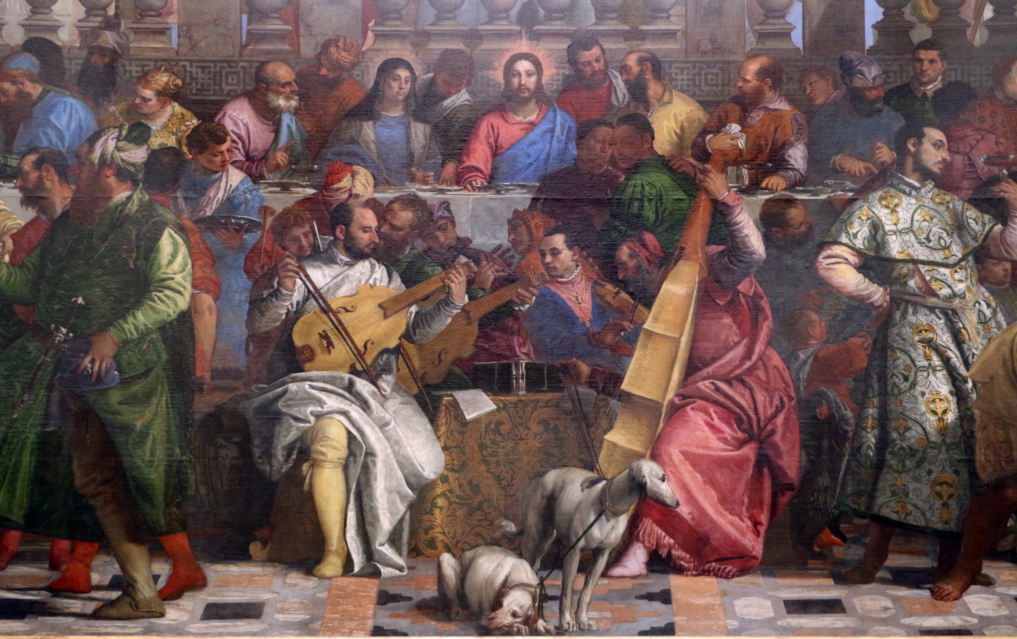 Paintings from Italy in the Louvre